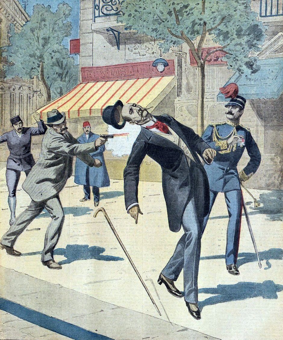 Illustration from the French magazine Le Petit Journal on the assassination of Greek King George I